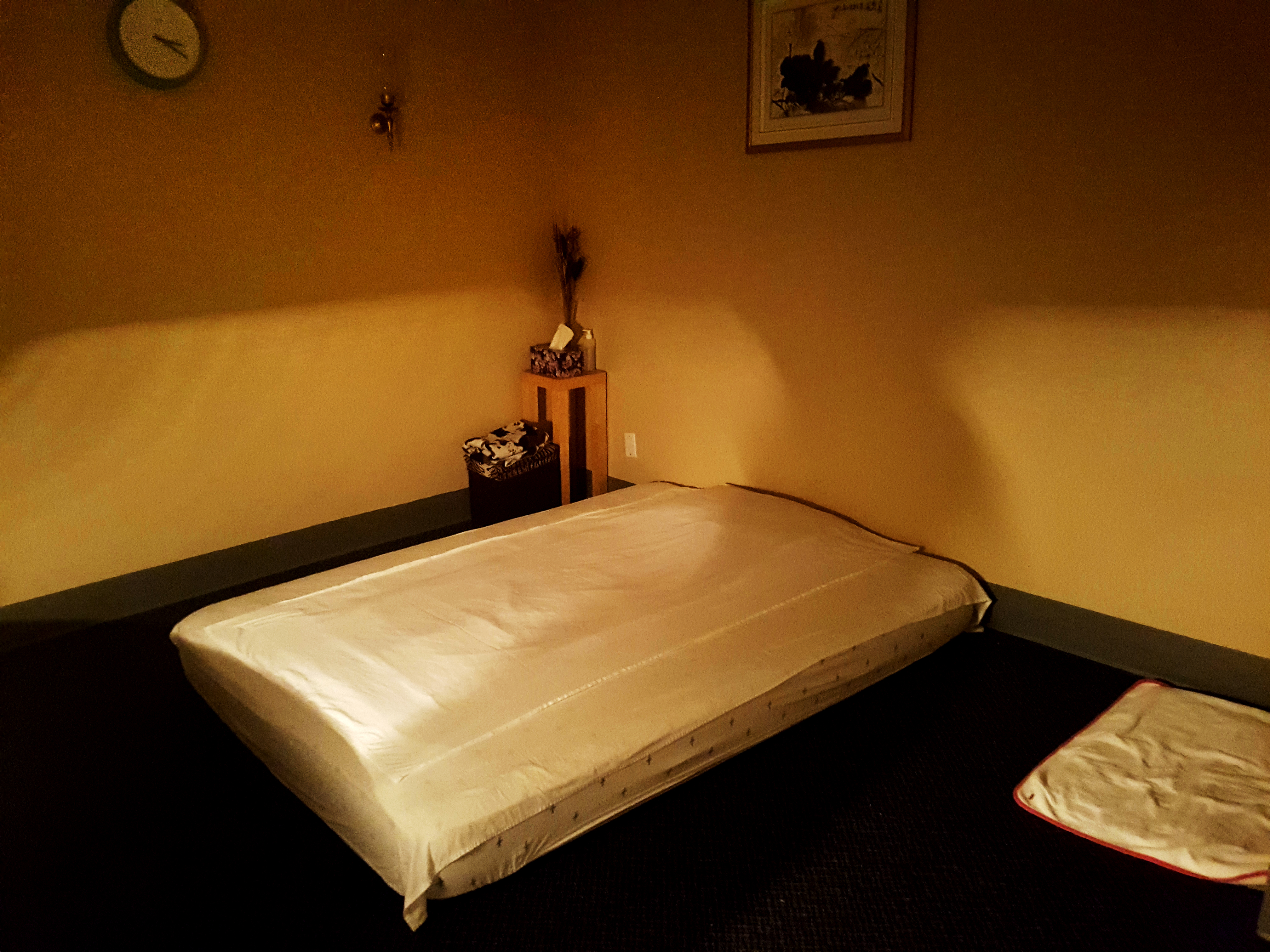 Mattress and furniture inside a massage parlor in Longueuil, Canada.